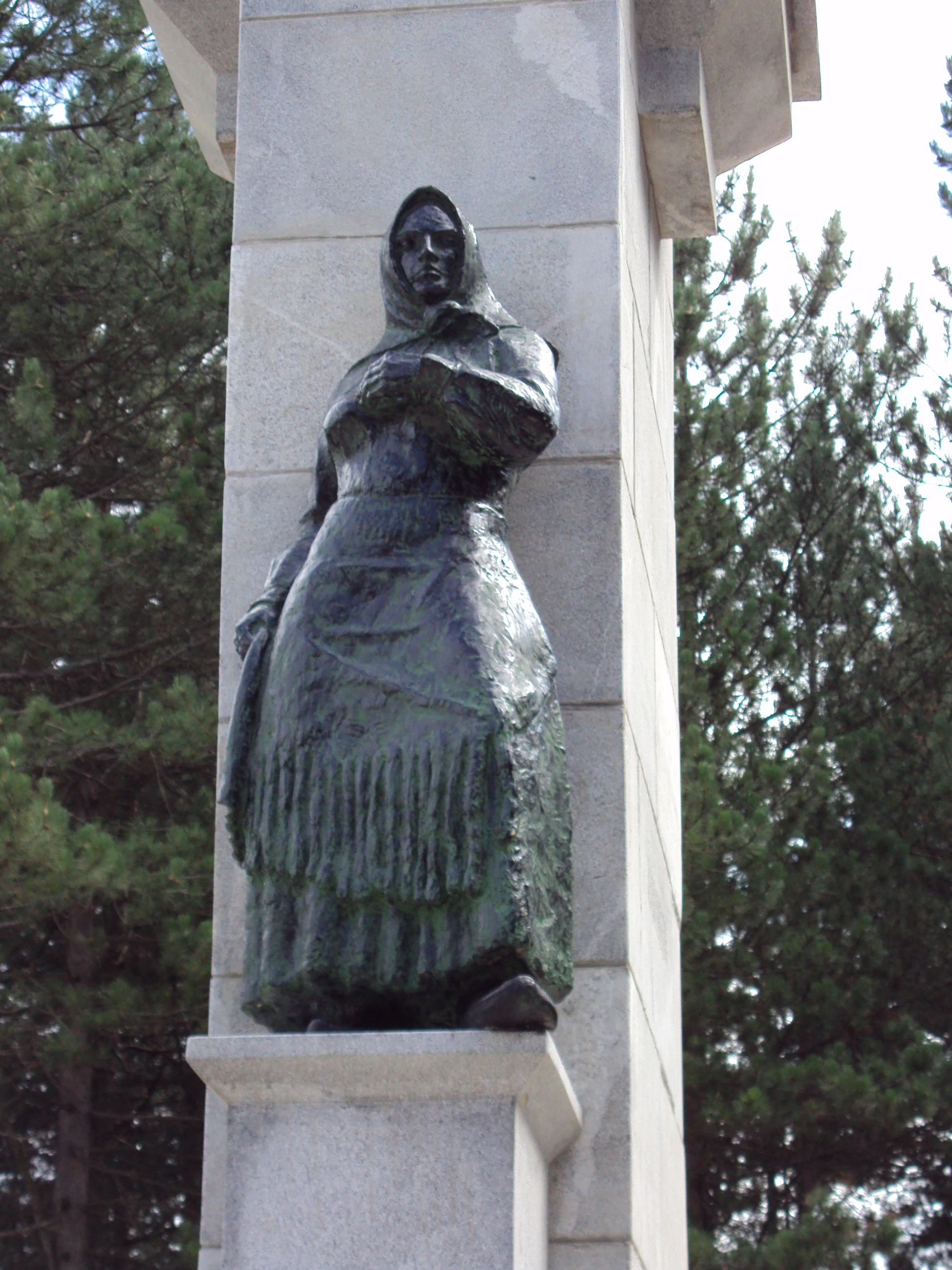 Detail of the mother statue at the monument to the uprising of the people of Croatia near Srb.